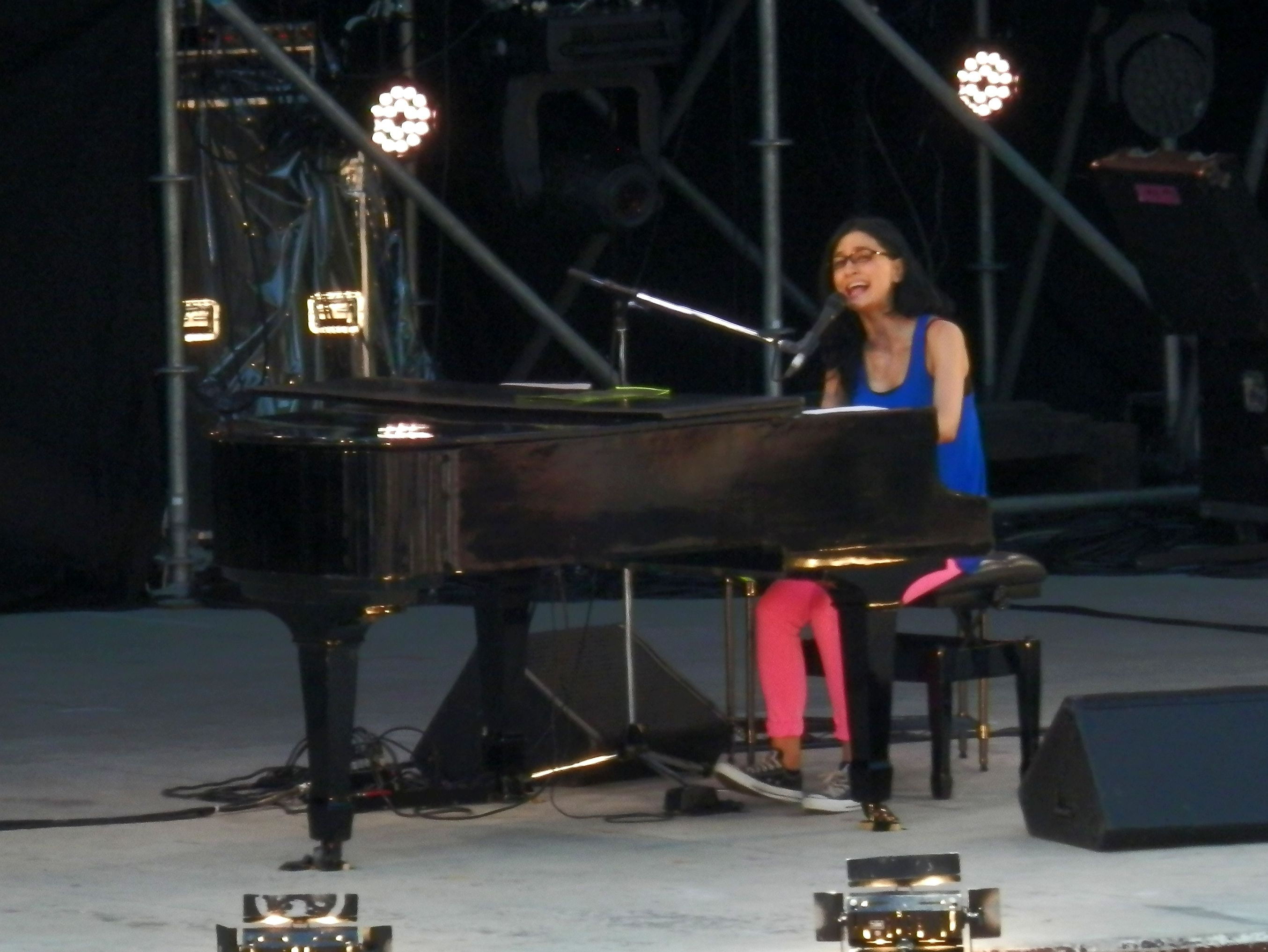 Angela Aki at Join Alive rock festival in Iwamizawa, Hokkaido (June 21, 2013)